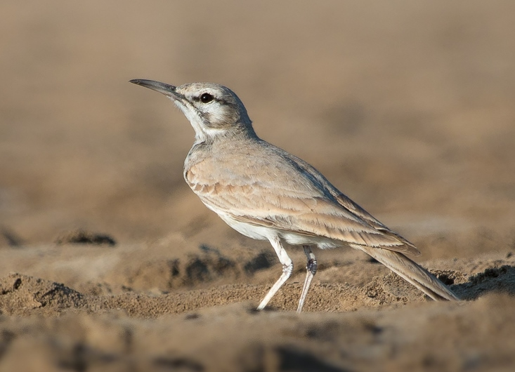 A Greater hoopoe lark at the Little Rann of Kutch